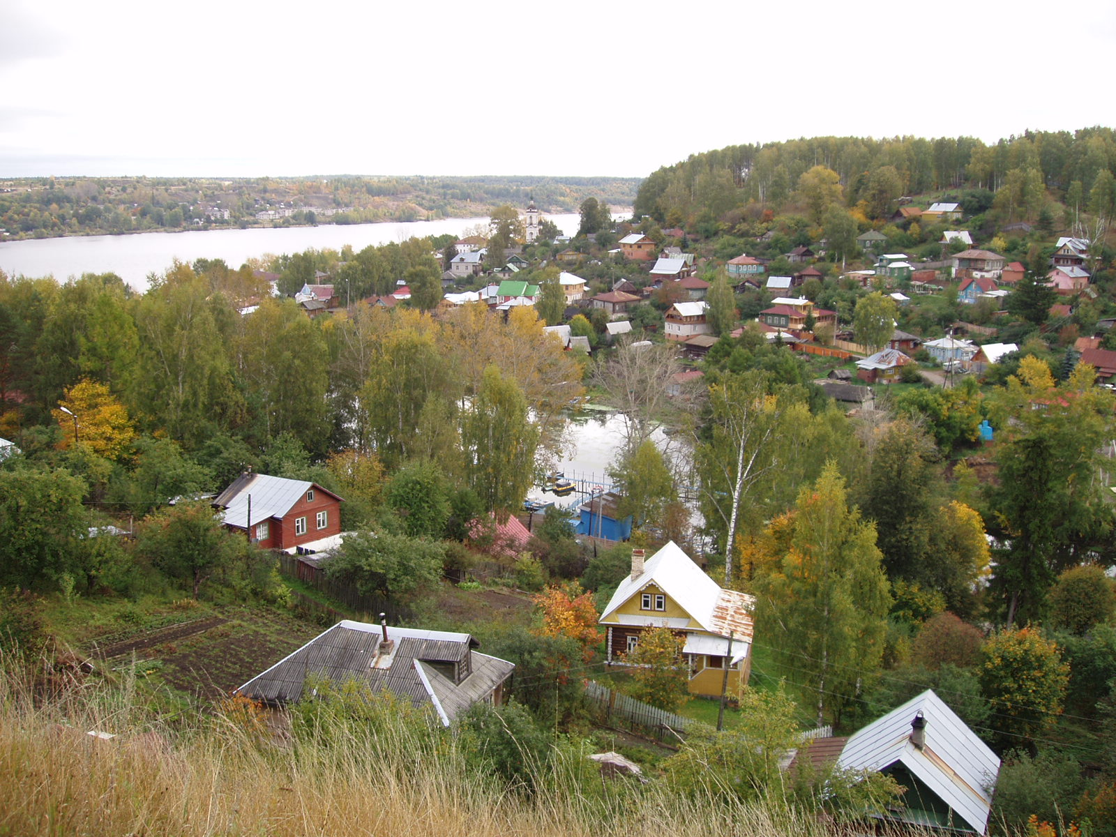 Plyos, small town in Ivanovo region, Russian Federation